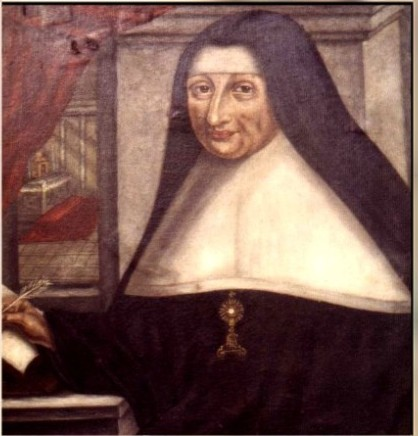 Mechtilde of Bar's portrait, 17th cent.